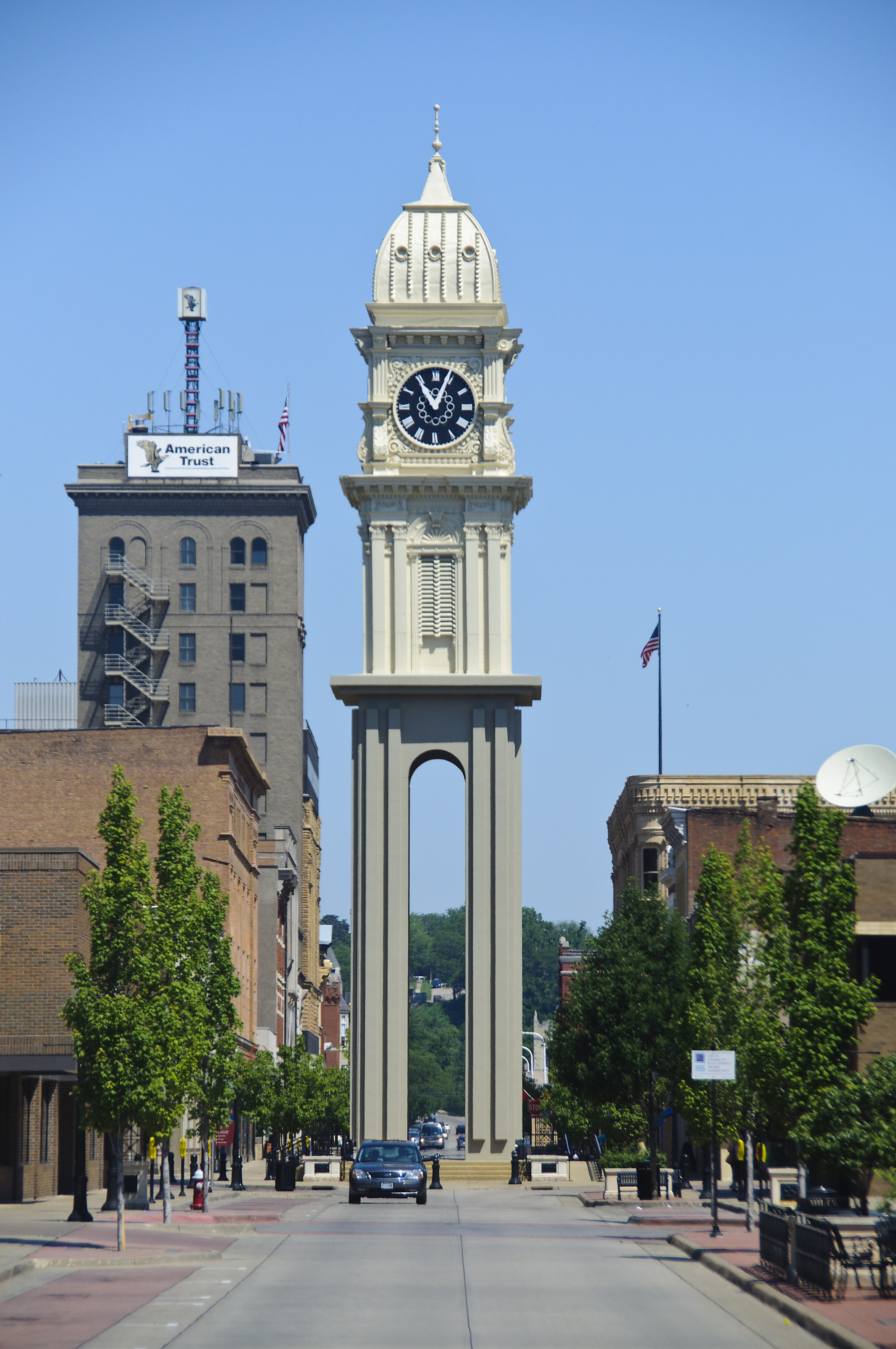 The Town Clock is a large clock that stands in downtown Dubuque, Iowa. The clock tower, which is listed on the National Register of Historic Places, has stood over the city for over 130 years.